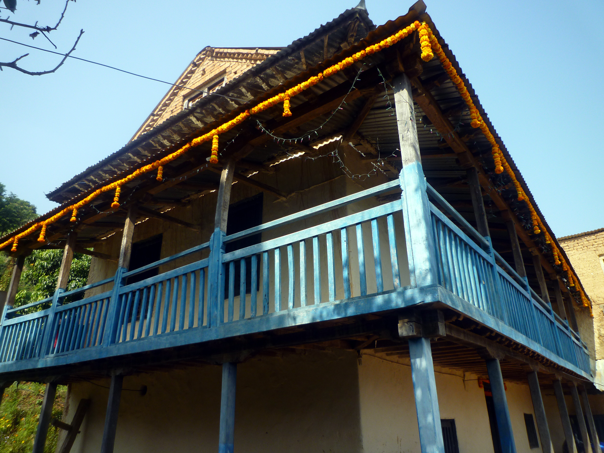 Decoration of Dipawali in Nepal.